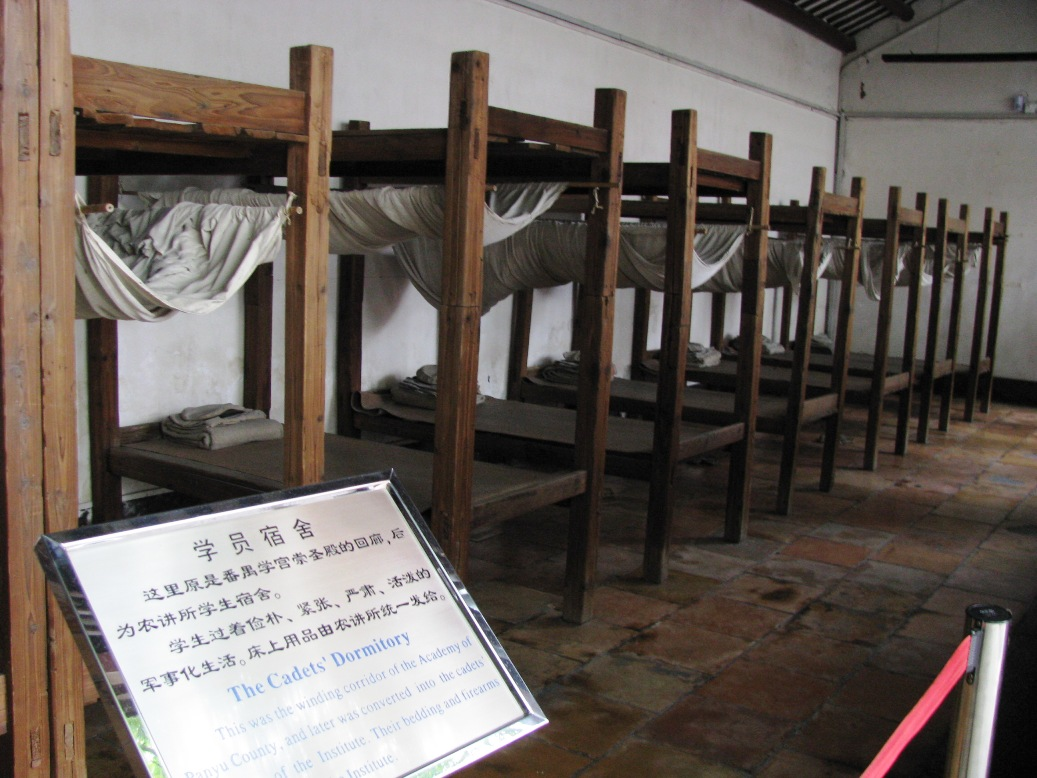 The Cadets' Dormitory in Nongjiang Suo Guangzhou, China.中国广州农讲所学员宿舍。